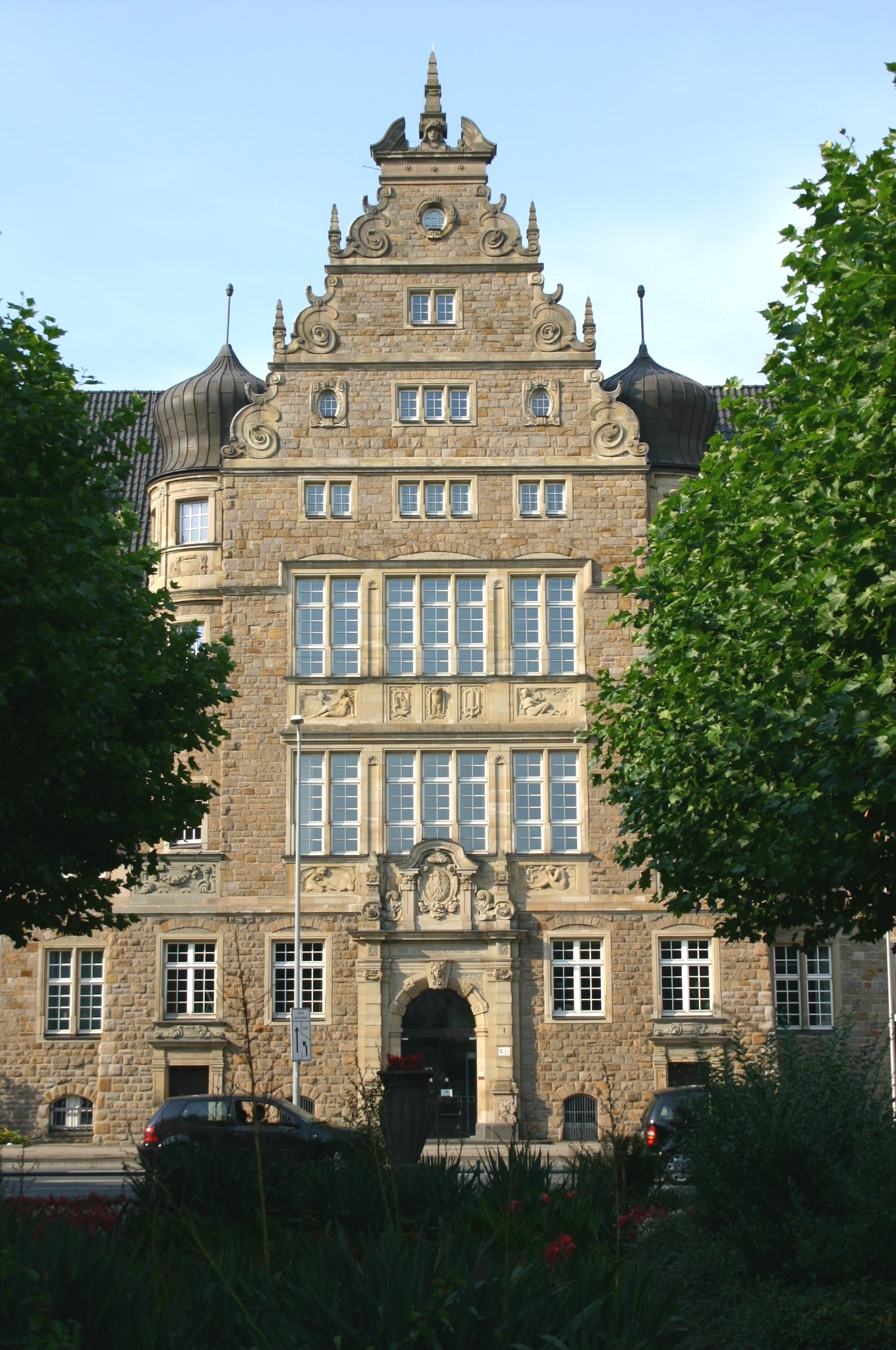 Local court, Oberhausen (Germany)